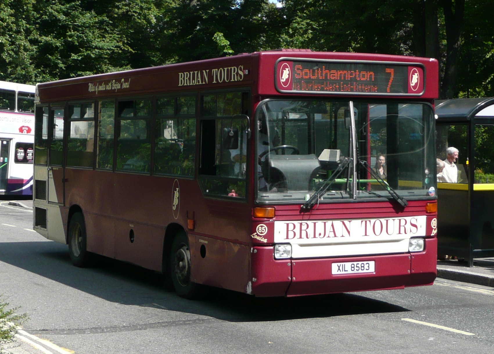 Brijan Tour's 85 (XIL 8583), a Dennis Dart/Plaxton Pointer in Southampton on route 7.